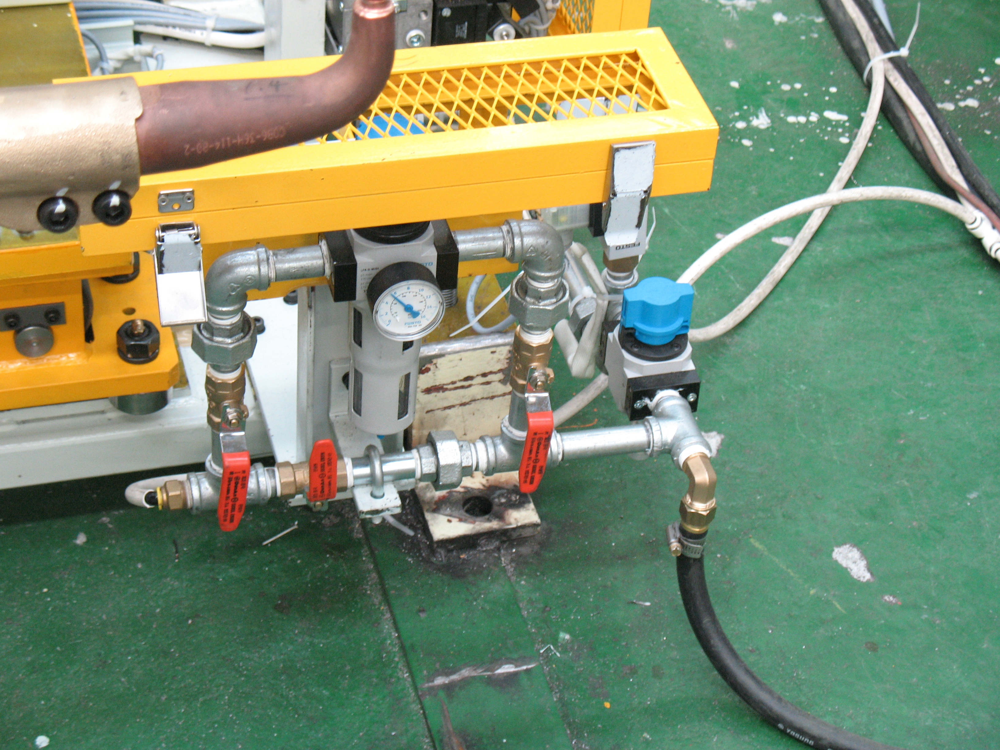 Control valve